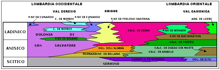 stratigraphy of Triassic in Lombardy (Northern Italy)